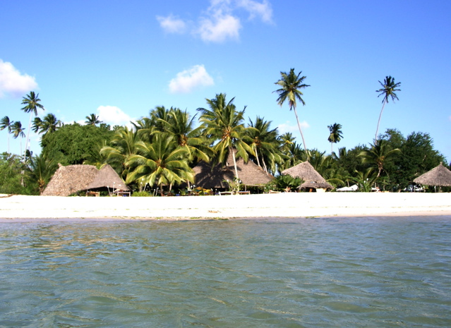 The Beach of Zanzibar, some kilometres north of Stone Town